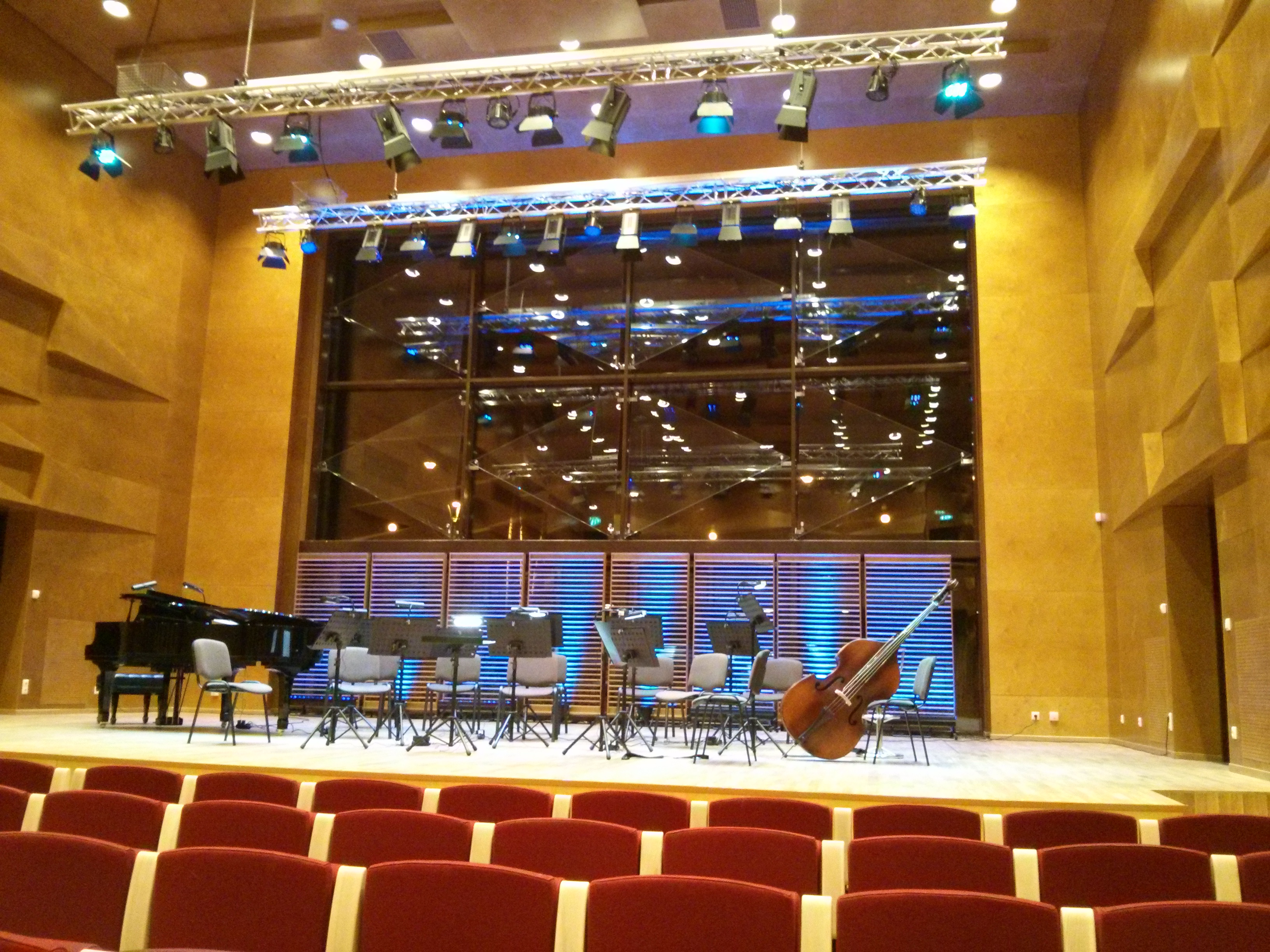 Tubin Hall at the Tartu Heino Eller Music School